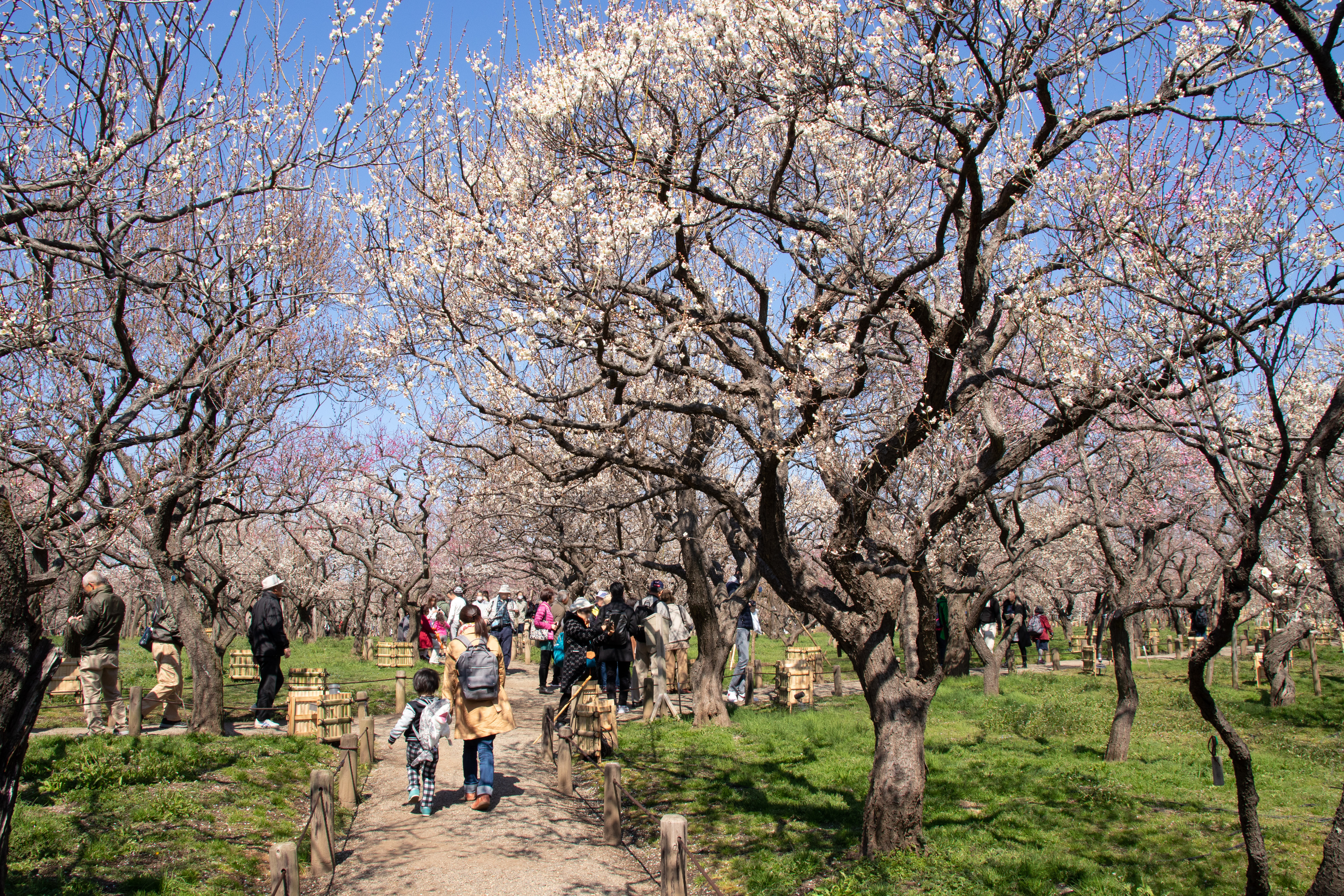 Mito-no-ume Matsuri Festival in Kairaku-en, Mito City, Ibaraki Pref., Japan